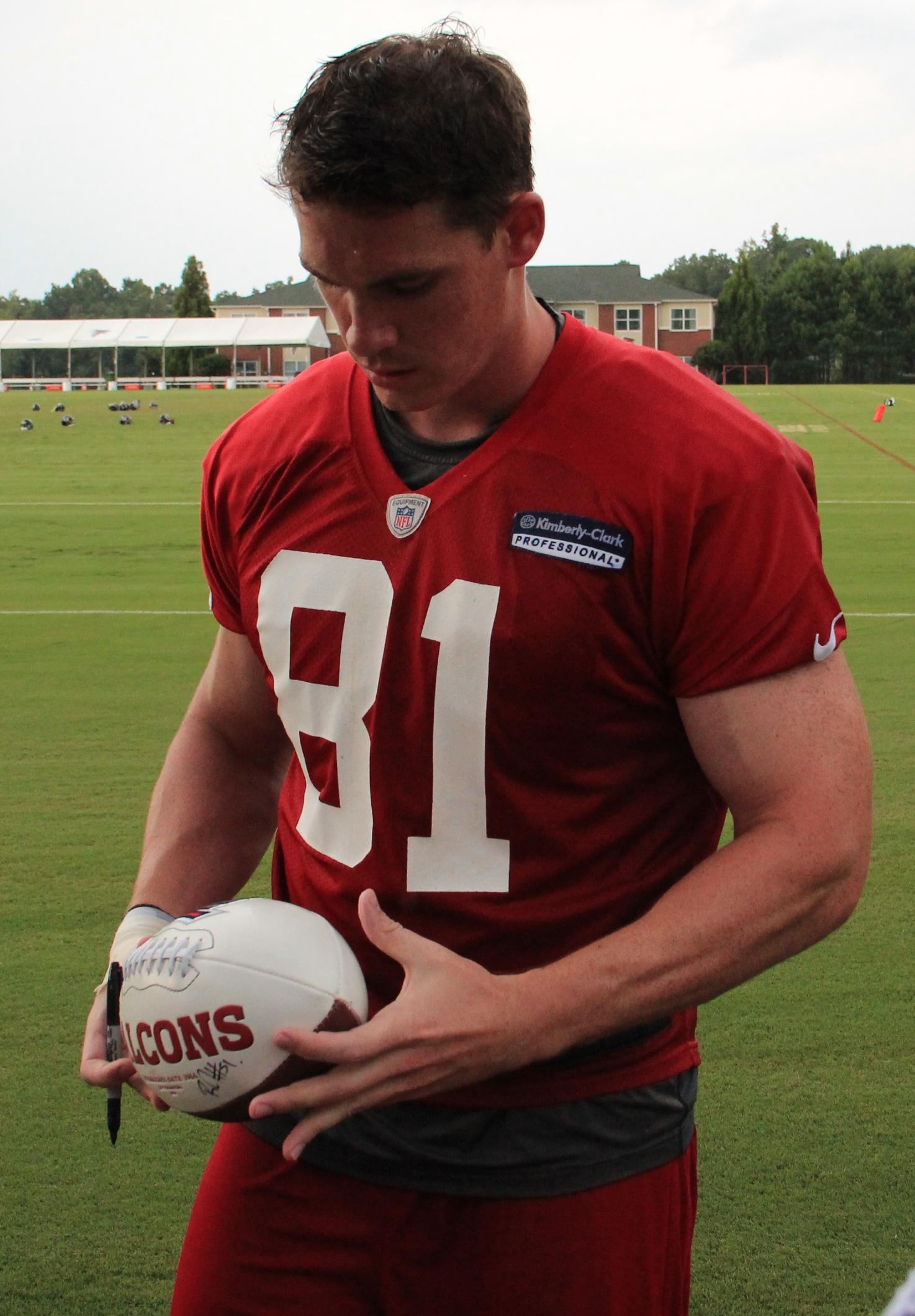 Colin Cloherty at Falcons training camp, 2013